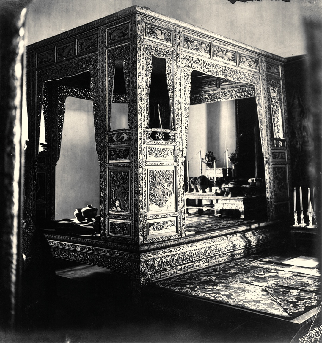 Canopy Bed of the King at the Chakraphat Phiman Hall, Grand Palace, Bangkok